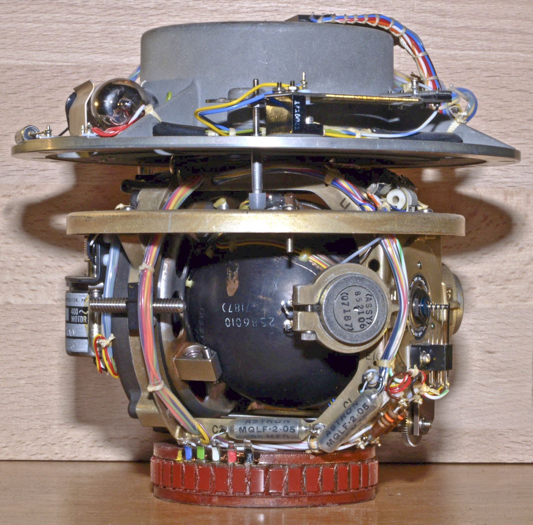 Gyroscope Directional, Sperry Phoenix Co.